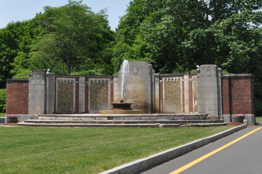 Entrance to Look Park, Florence, MA